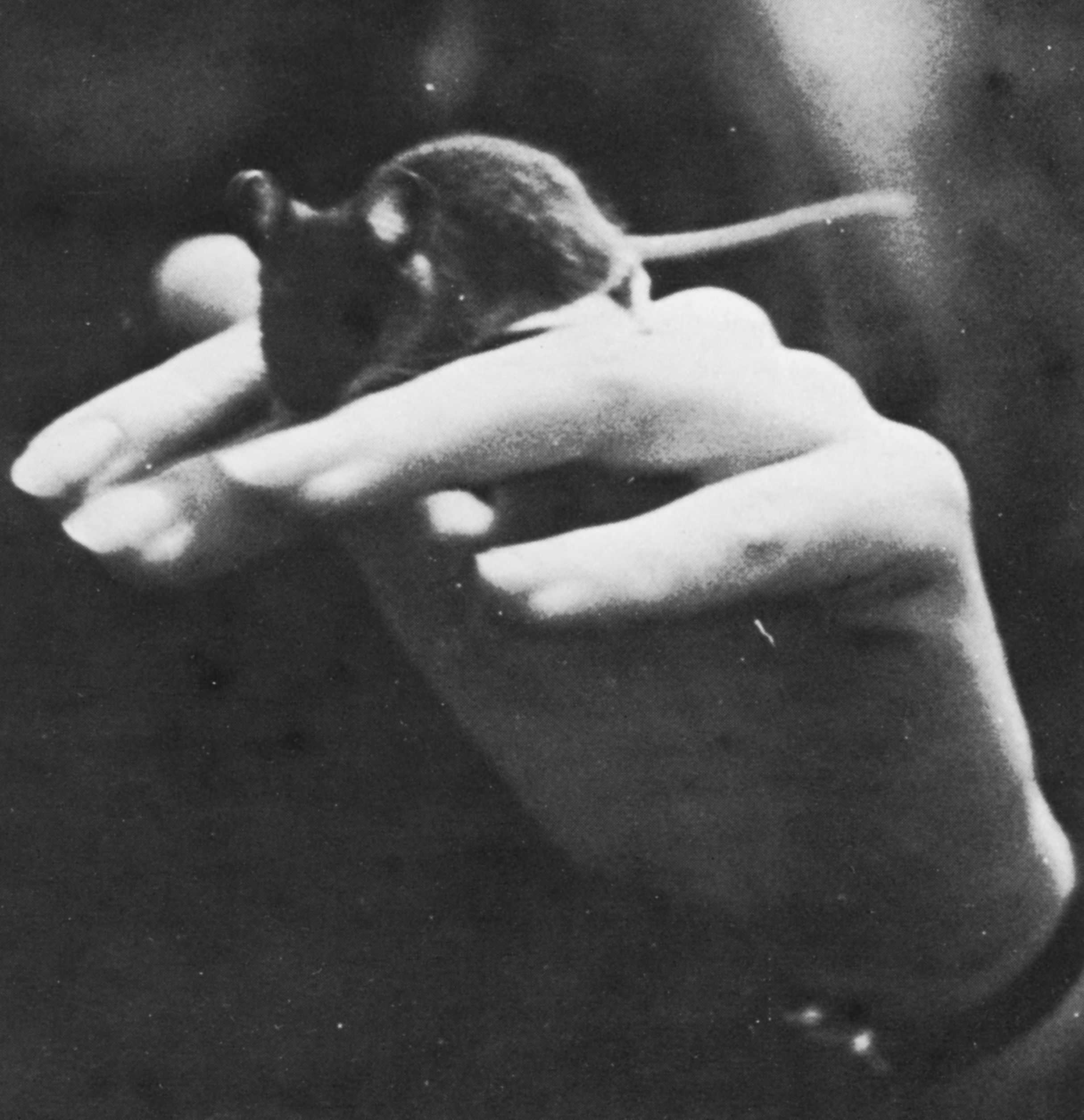 Young woman watches mouse run across her fingers. Published in the Recondite yearbook, which was published without a copyright notice.